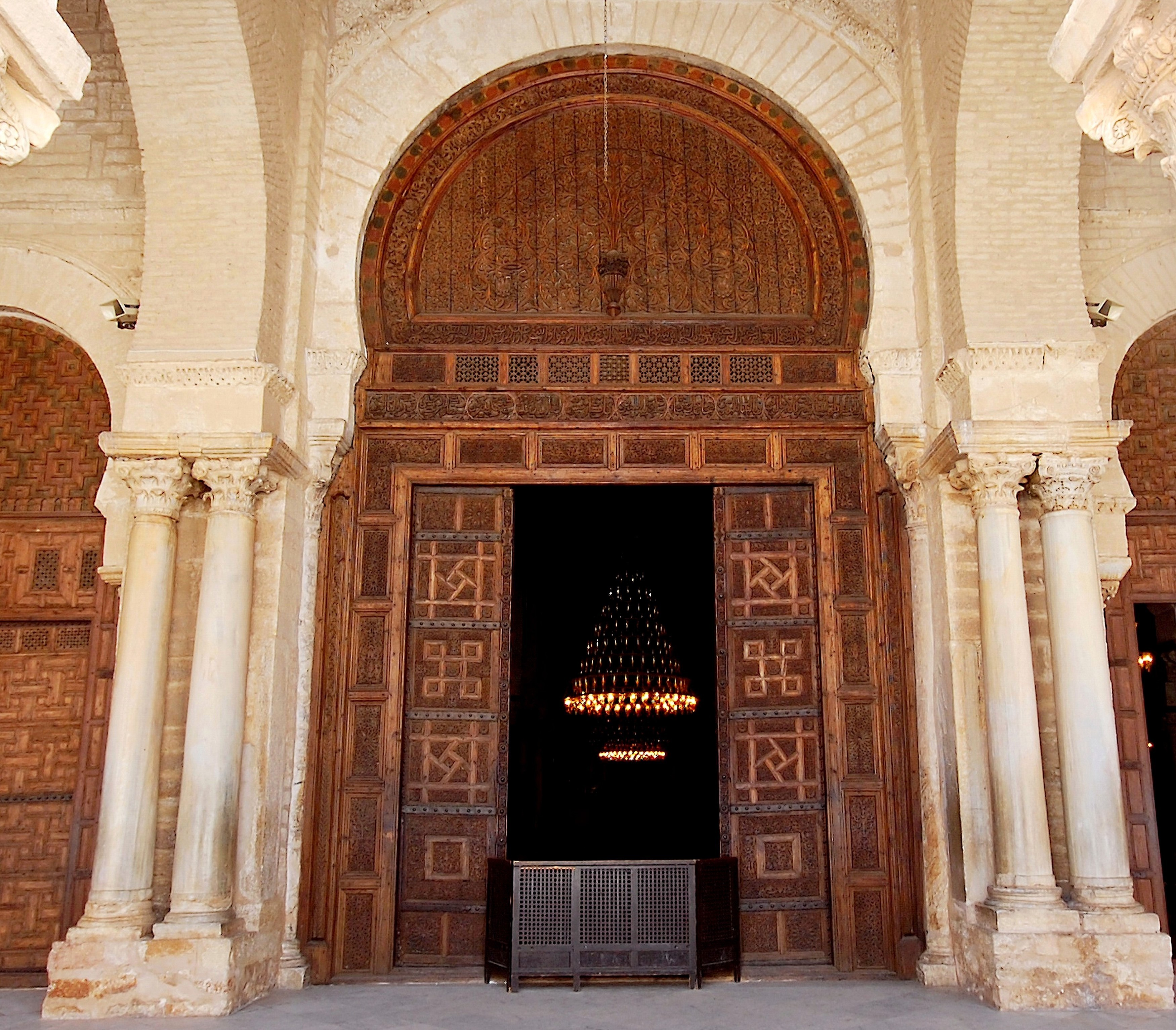 View of the most important door among the seventeen carved wooden doors of the prayer hall of the Great Mosque of Kairouan, in Tunisia.